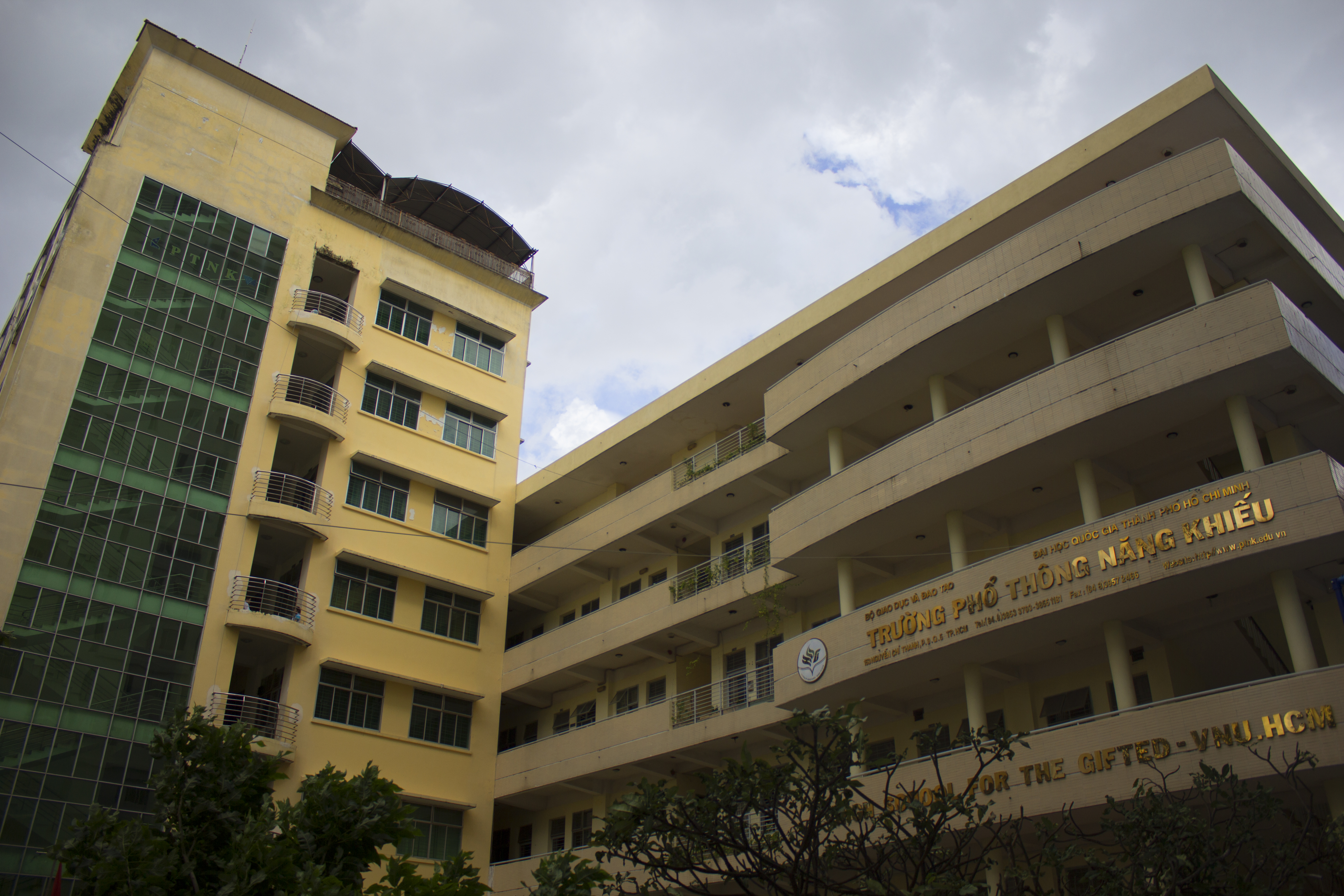 An overview look of High School For The Gifted.